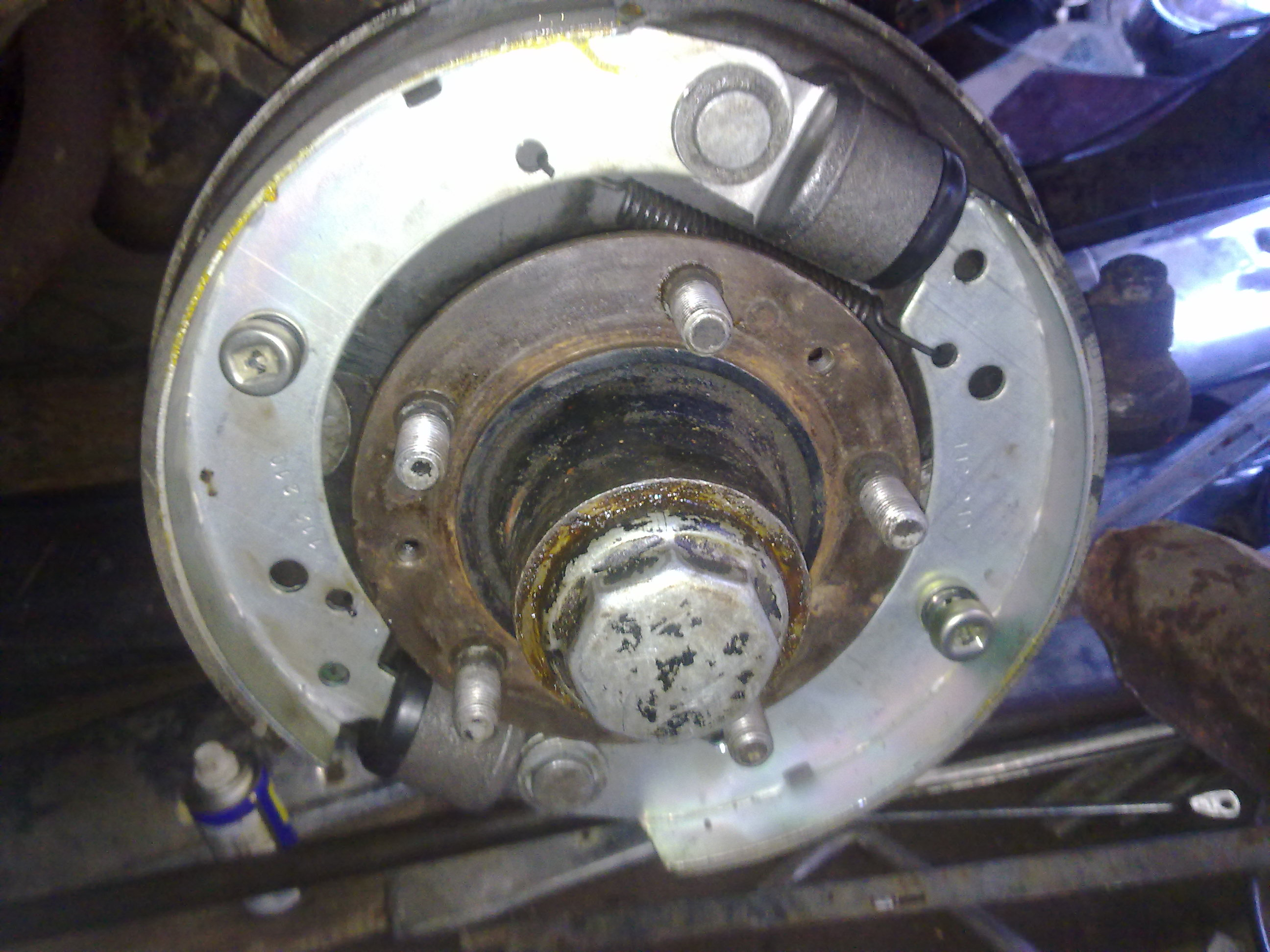 Duplex (dual cylinders) front brakes of the Volga M-21